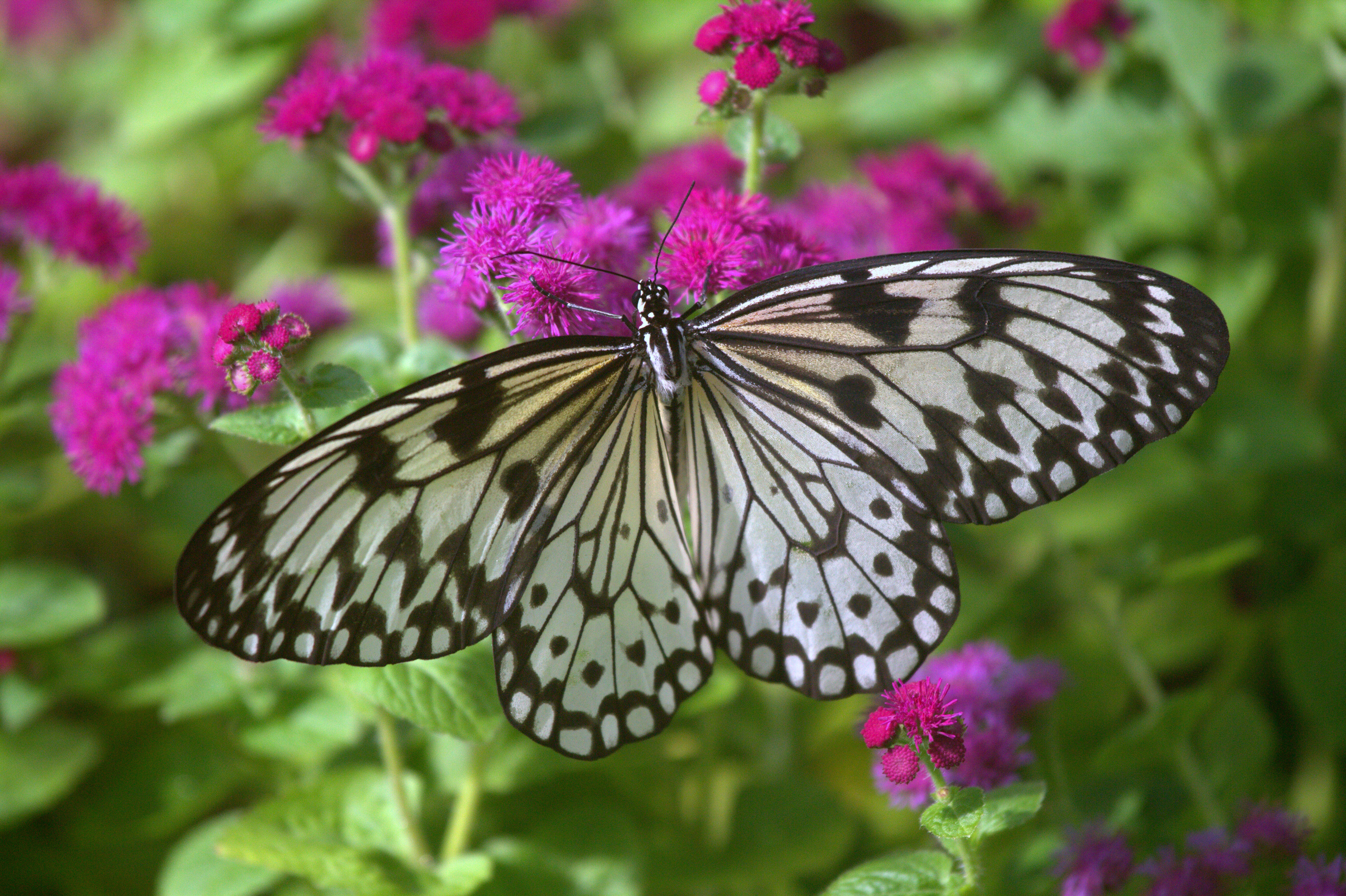 Idea leuconoe - dorsal view. Taken at Krohn Conservatory in Cincinnati, OH.